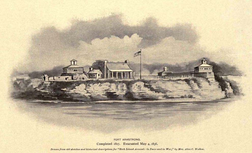 Fort Armstrong, drawn from old sketches and historical descriptions.